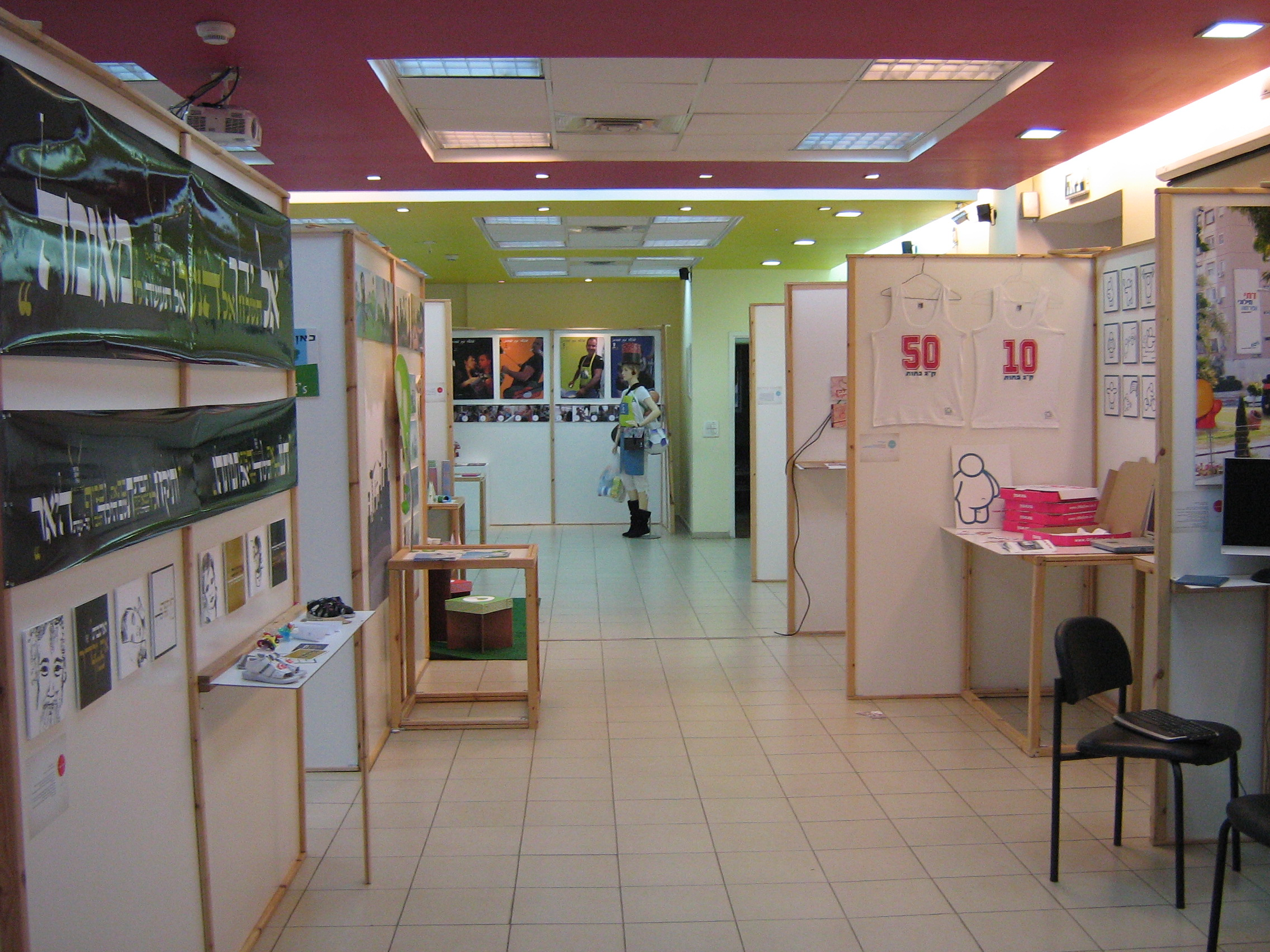 Tiltan College for Design and Visual Communication Alumni exhibition